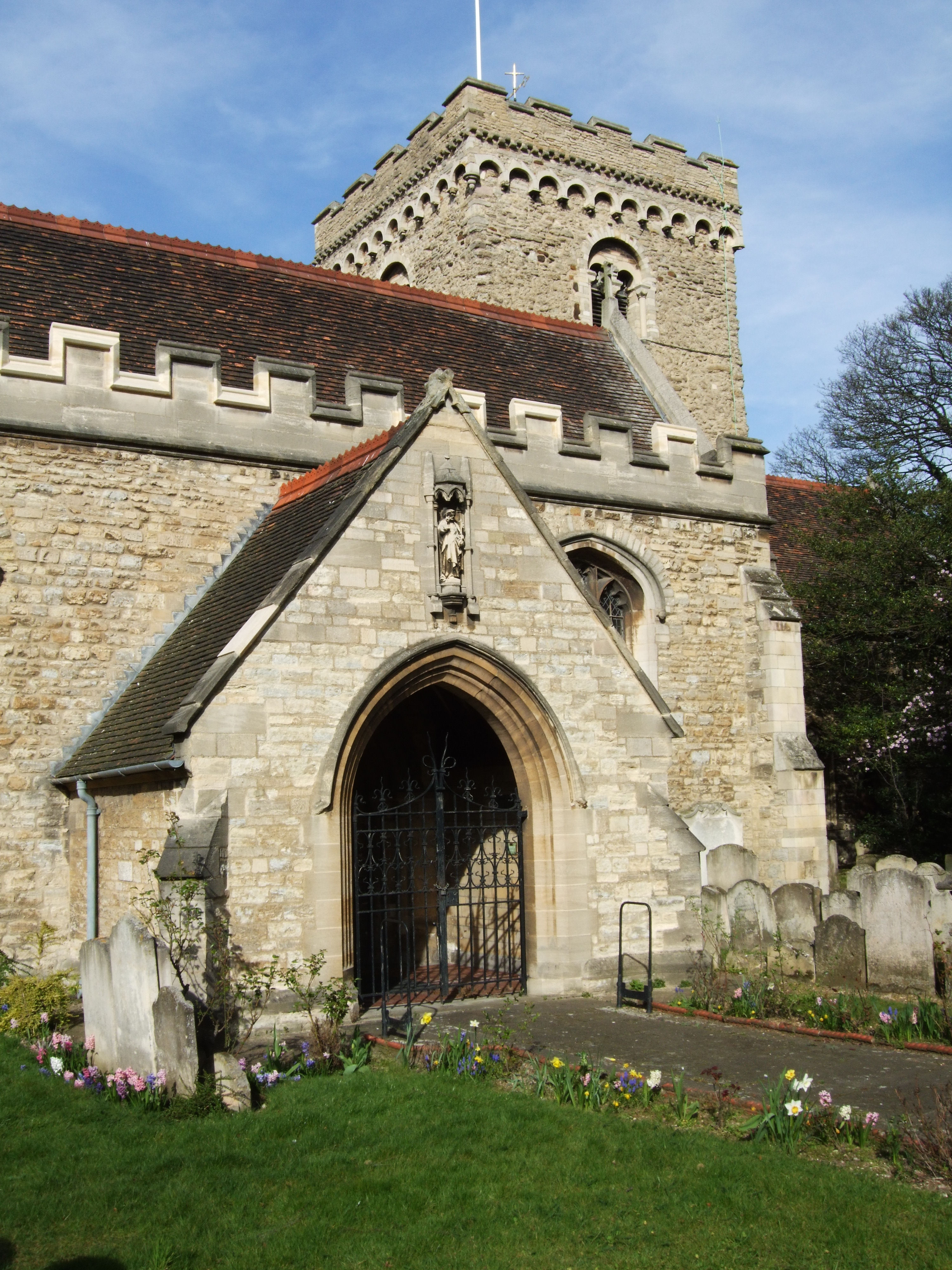 The Parish Church of St Peter de Merton with St Cuthbert is an Anglican church based on St Peter's Street in the De Parys area of Bedford, Bedfordshire, England.